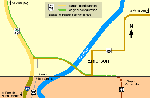 Map showing highways 75 and 200 at Emerson, Manitoba. Both original and current configurations.